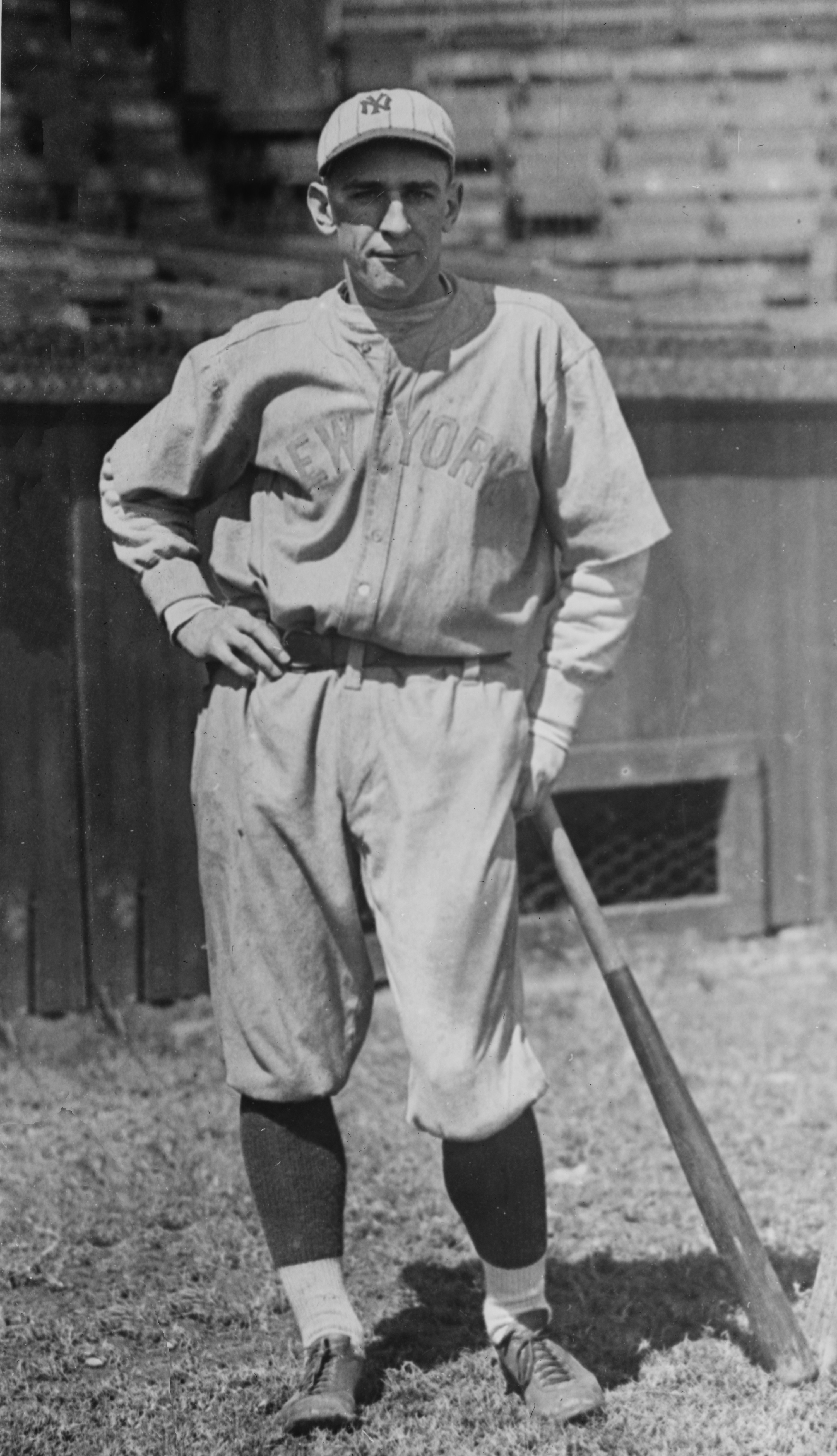 Title: Glenn Killinger & Hinkey Haines, prospects with New York AL (both pro football players) (baseball) Abstract/medium: 1 negative : glass ; 5 x 7 in. or smaller.